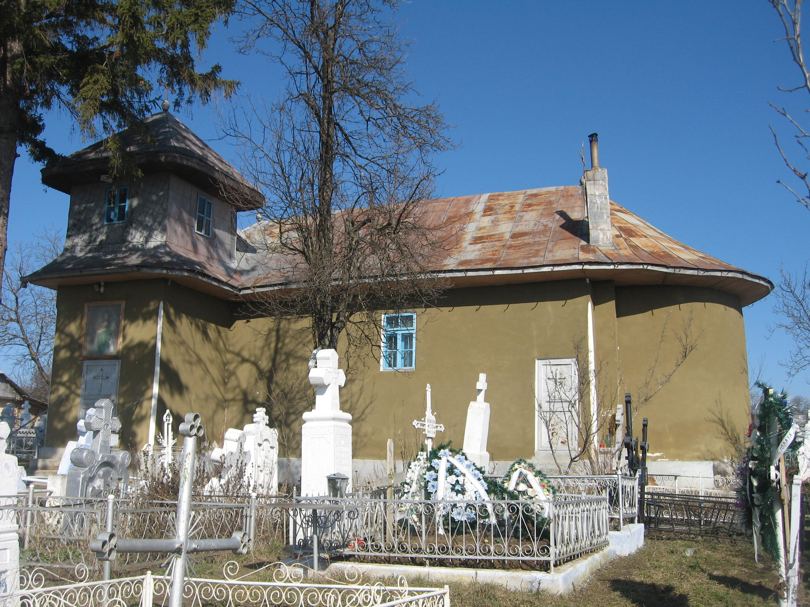 Biserica de lemn din Borosesti